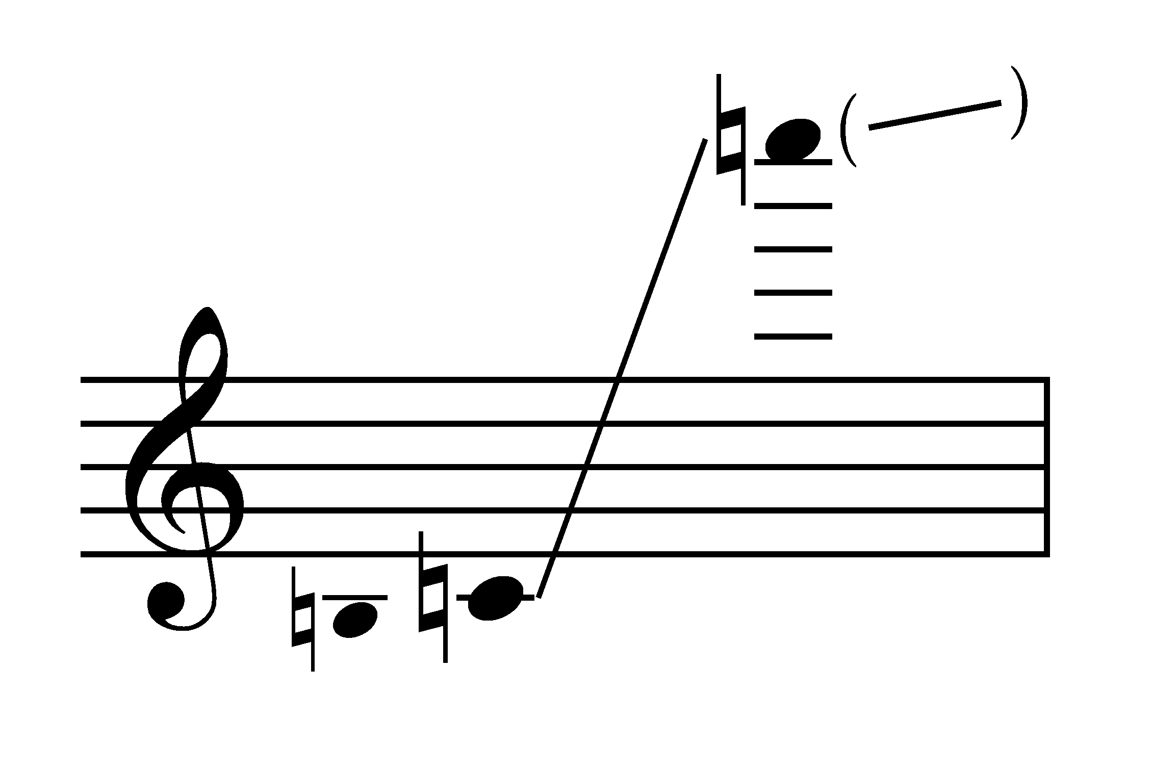 Range of flute.